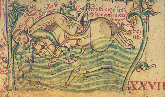 Engelram of Coucy dies: falls from horse in water